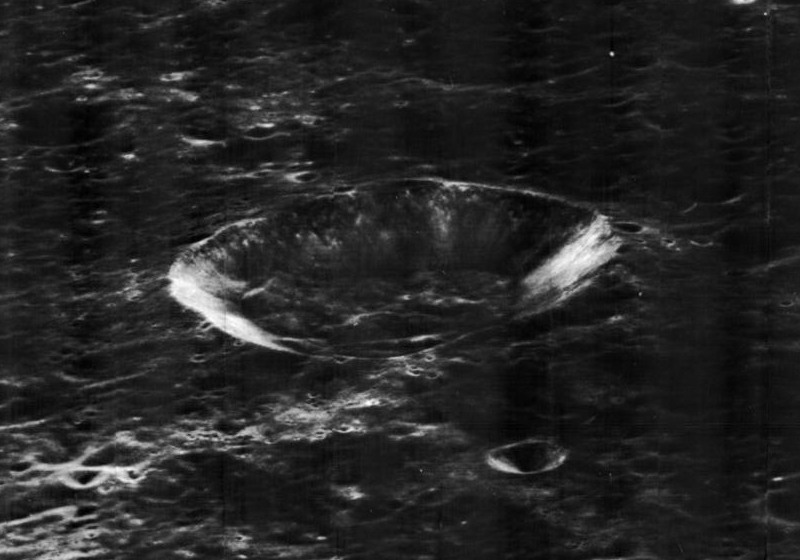 Vesalius M crater (south of Vesalius), on the far side of the moon, facing west.